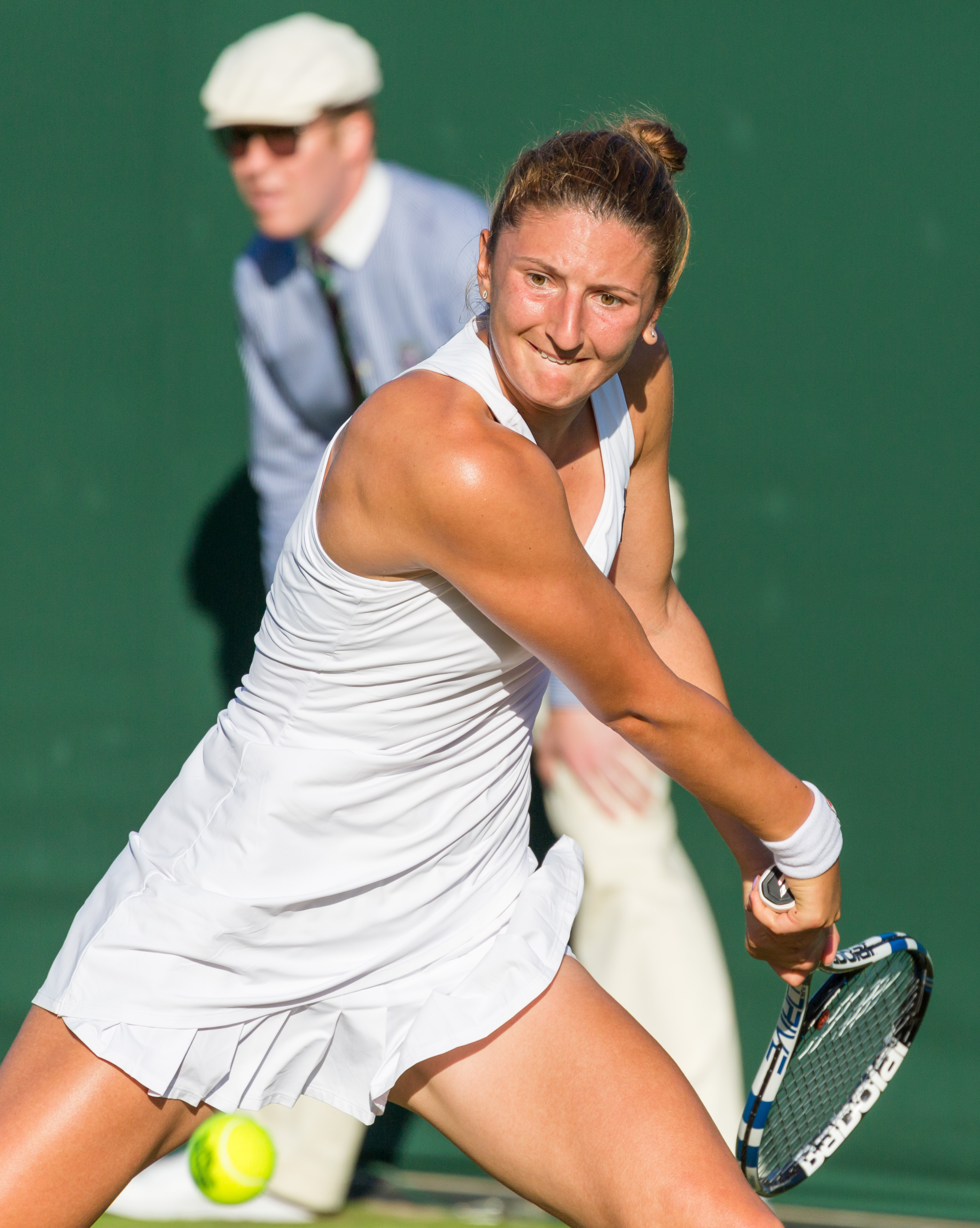 Irina-Camelia Begu competing in the first round of the 2015 Wimbledon Championships.